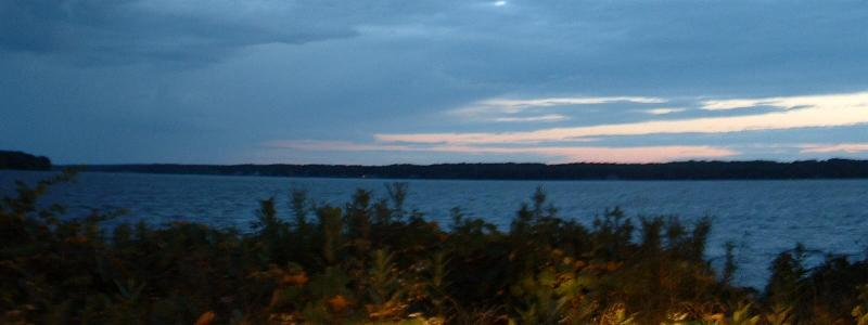 View of South Watuppa Pond from Route 6 at sunset.